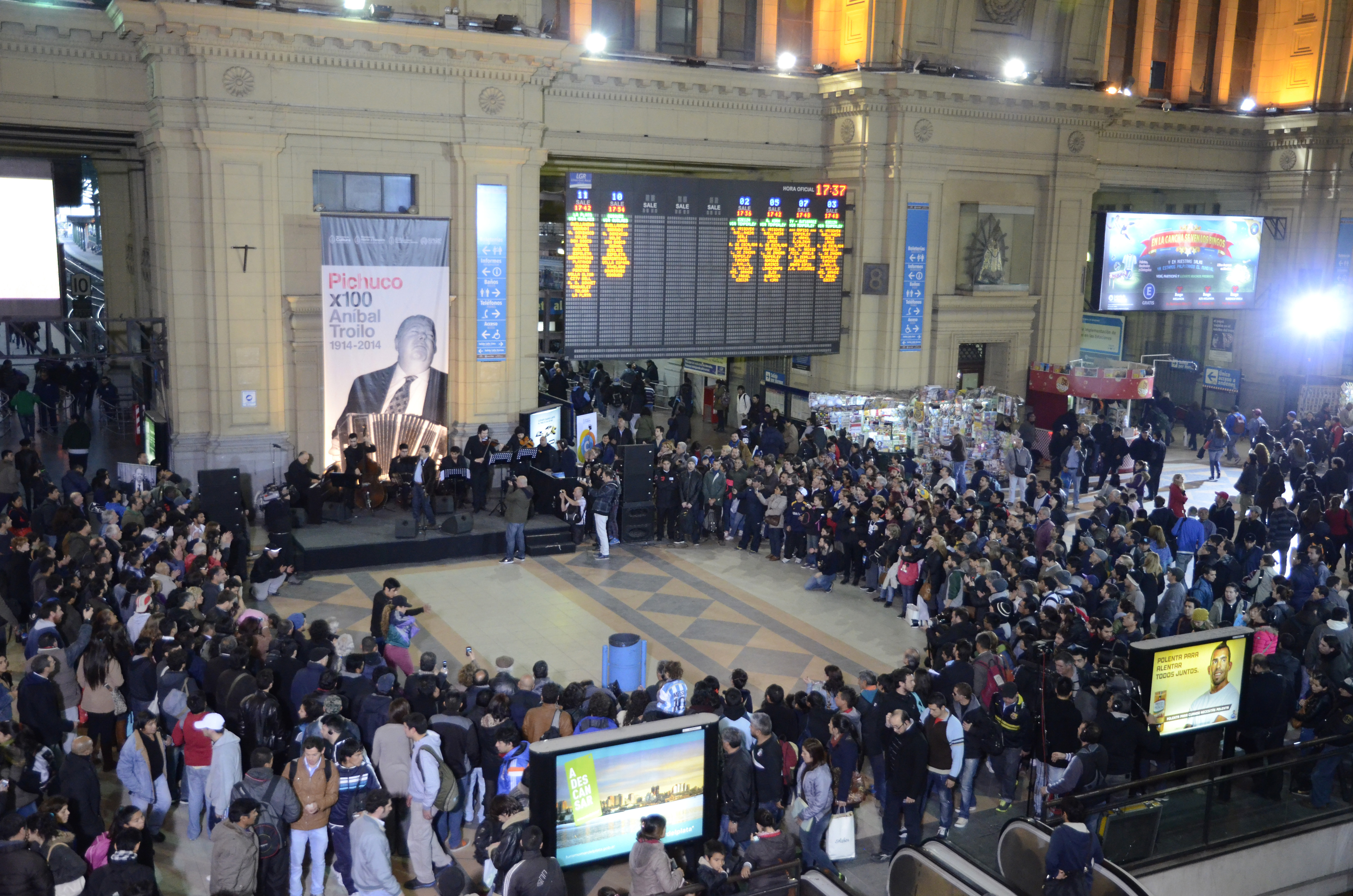 Como parte de las actividades en homenaje a los cien años del nacimiento de Aníbal Troilo, el Ministerio de Cultura de la Nación, el Plan Nacional Igualdad Cultural y el Ministerio del Interior y Transporte organizaron una intervención sorpresiva de música y danza. En el hall de la estación Constitución, los bailarines del Combinado Argentino de Danza y Guillermo Fernández, acompañado de su Sexteto, se mezclaron entre los transeúntes durante la intervención, ideada para recordar a Pichuco, el gran bandoneonista argentino.